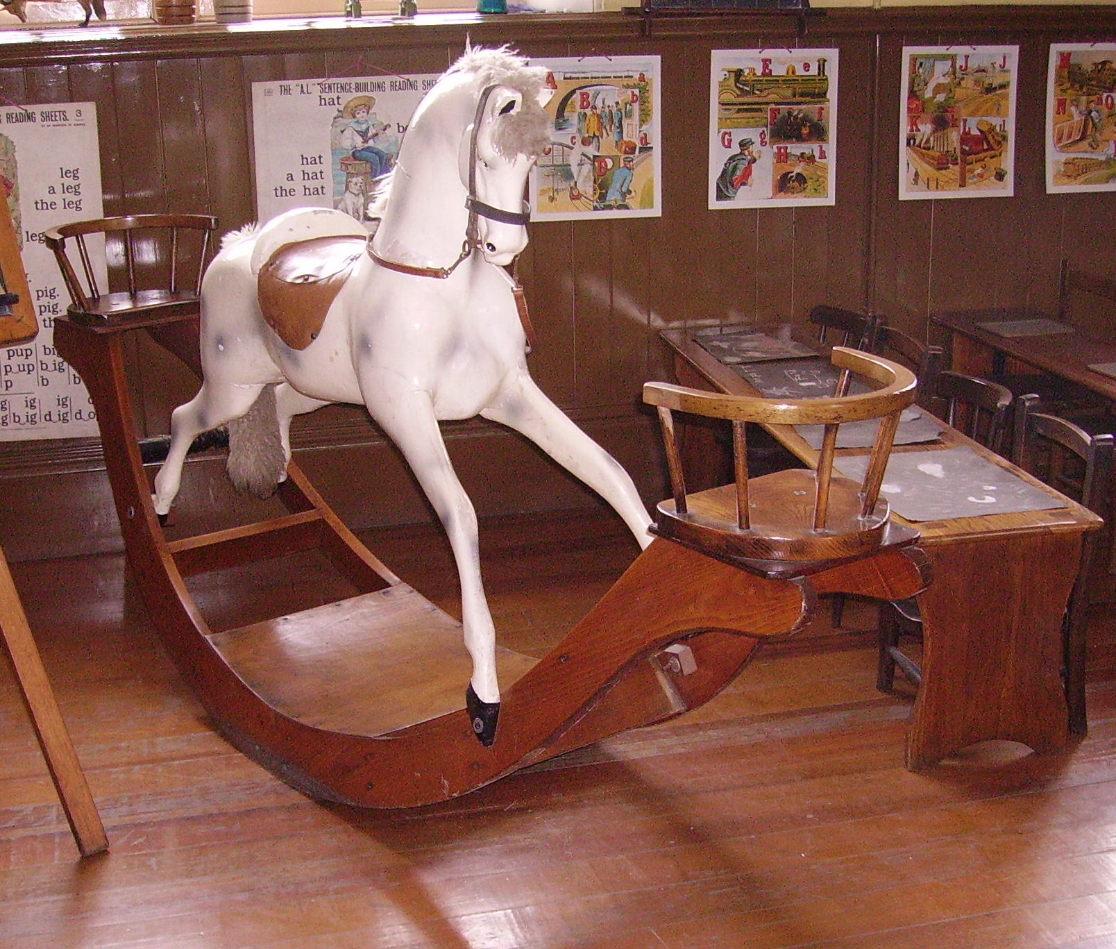 Beamish Museum, County Durham, England. This is the interior of the school in the Pit Village.